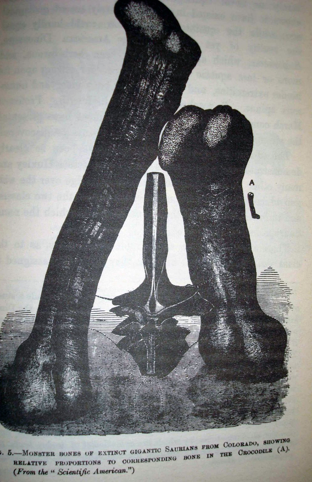 Illustration of remains of the dinosaur Amphicoelias fragillimus, based on E.D. Cope's original illustration of the vertebra, with an alligator femur for scale. From the book Mythical Monsters by Charles Gould, 1884.